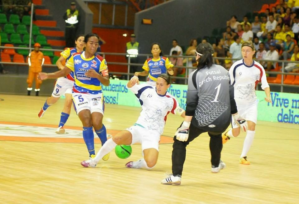 Game between women's national teams of Czech Republic and Venezuela (II Women's Futsal World Cup, Cali, Colombia. Venezuela won 1:0, for advancing to the championship game)